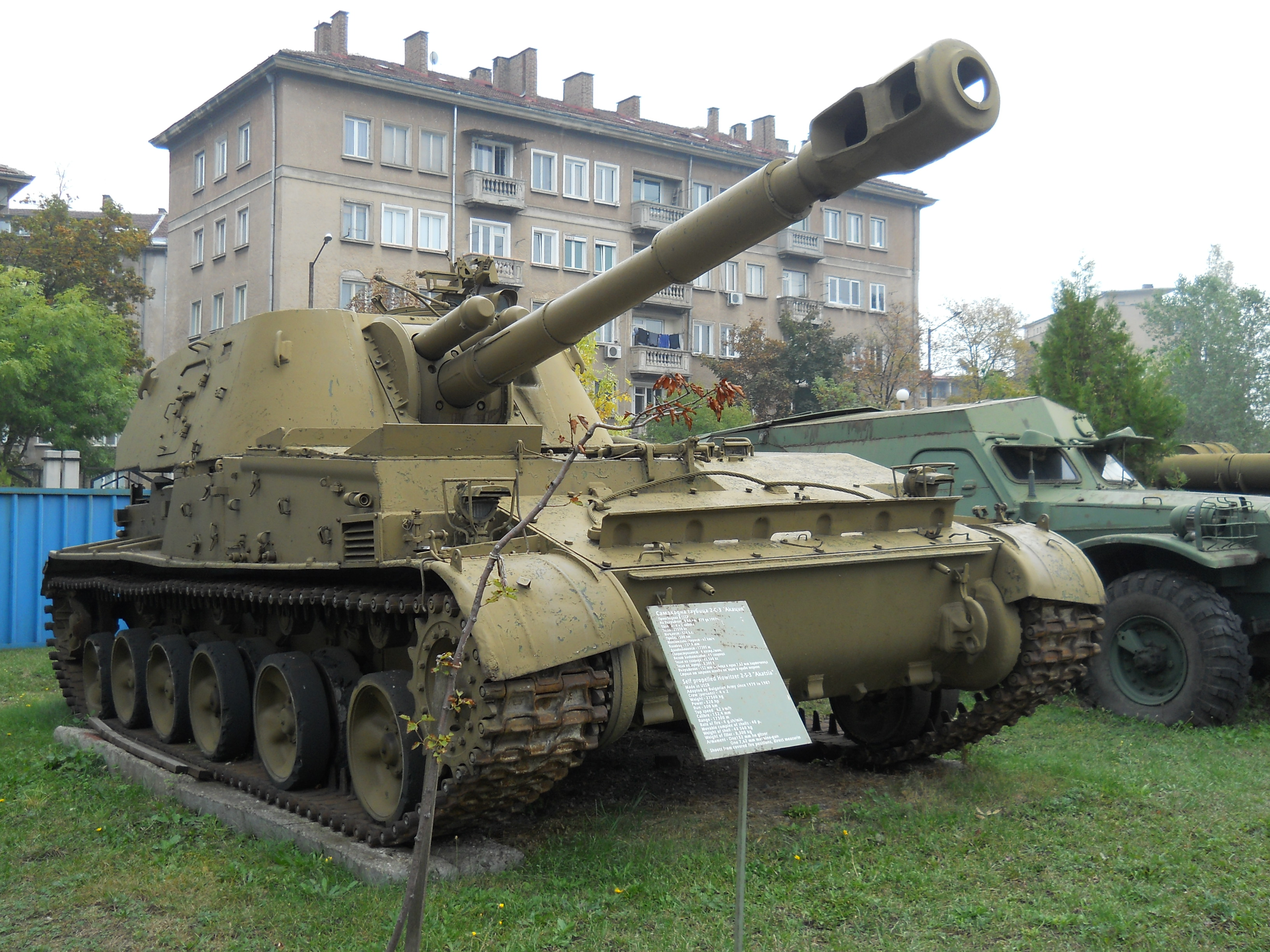 2S3 SPG at the National Museum of Military History, Bulgaria.